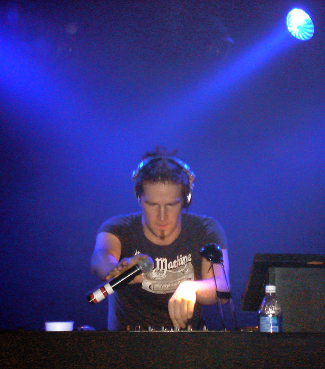 A live hour-and-a-half DJ set at The Docks, Toronto, ON, Canada. All ages party, UNITY 2007